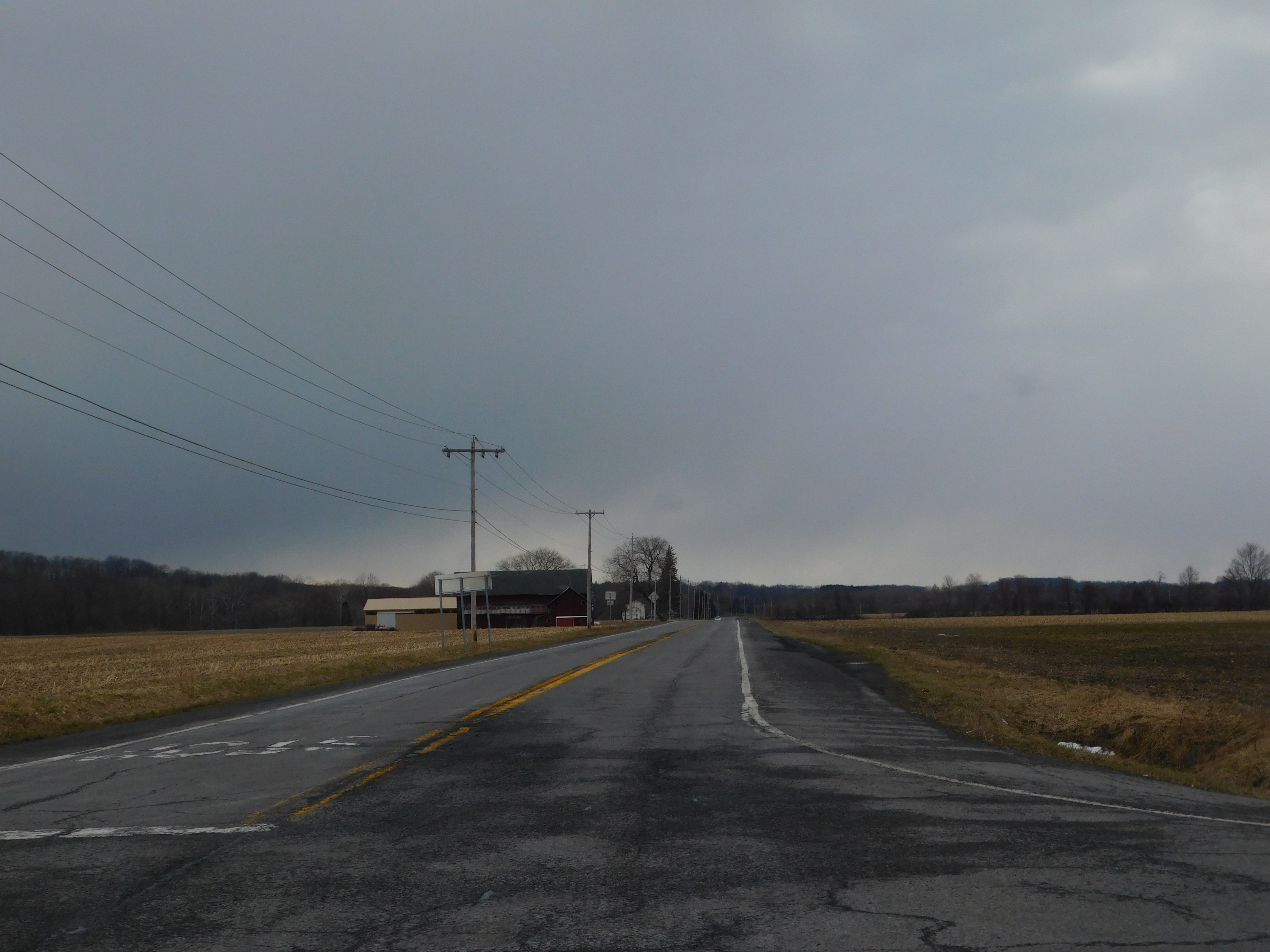 NY 38A northbound in Skaneateles, New York.